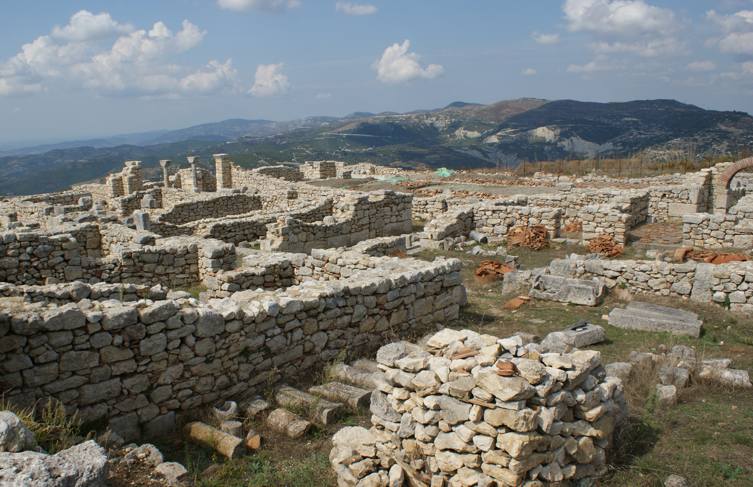 Byllis - Albania - Cathedral